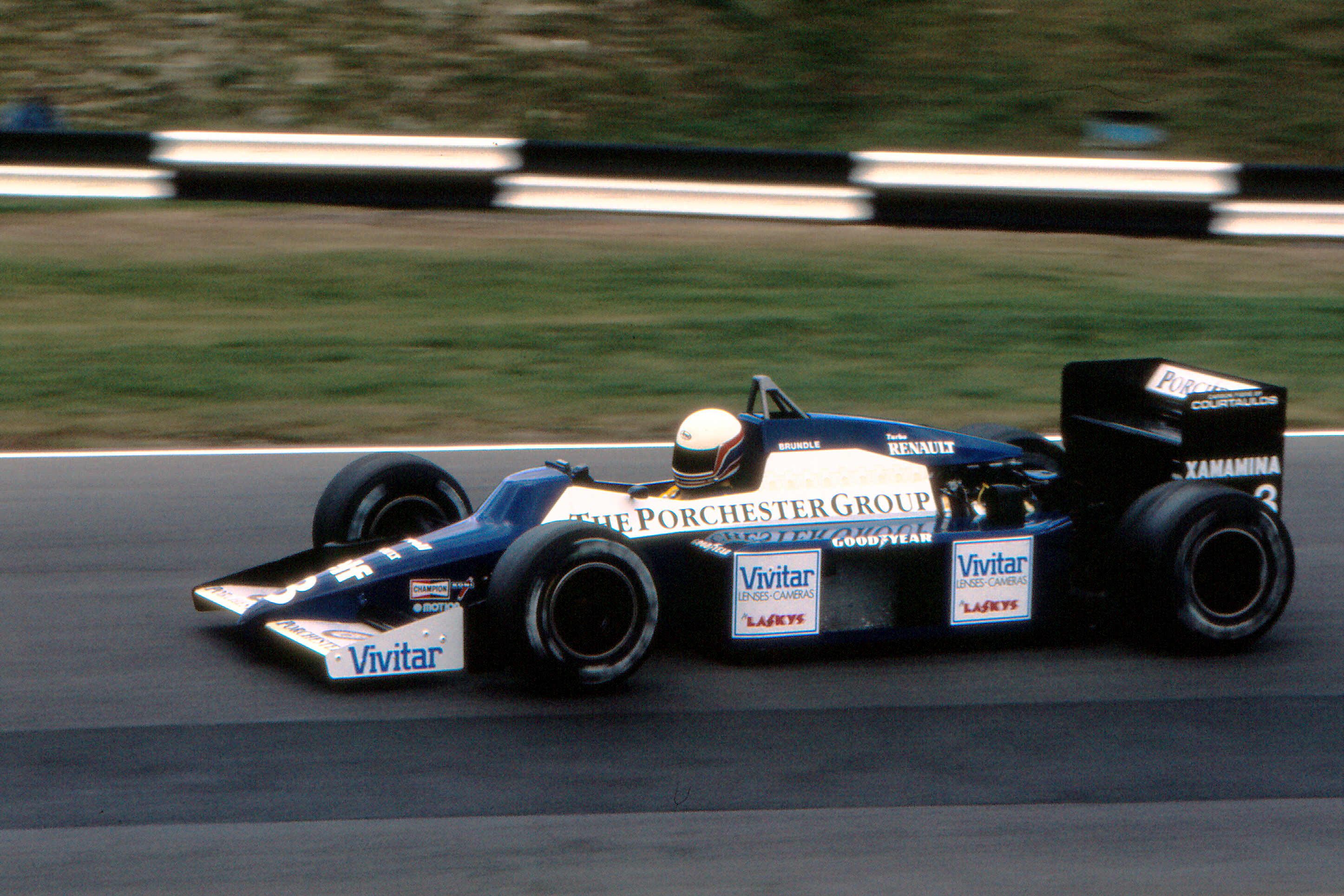 Martin Brundle during practice for the 1985 European Grand Prix